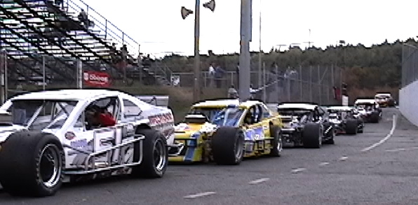 Tom Rogers Jr(#51) leads Doug Colby(#77), Tony Hirschman Jr(#48), Donny Lia(#18), Rick Fuller(#00), and Dick Houlihan(#46) off the track after qualifying for the October 1 race. The race was rained out and will be held October 28.